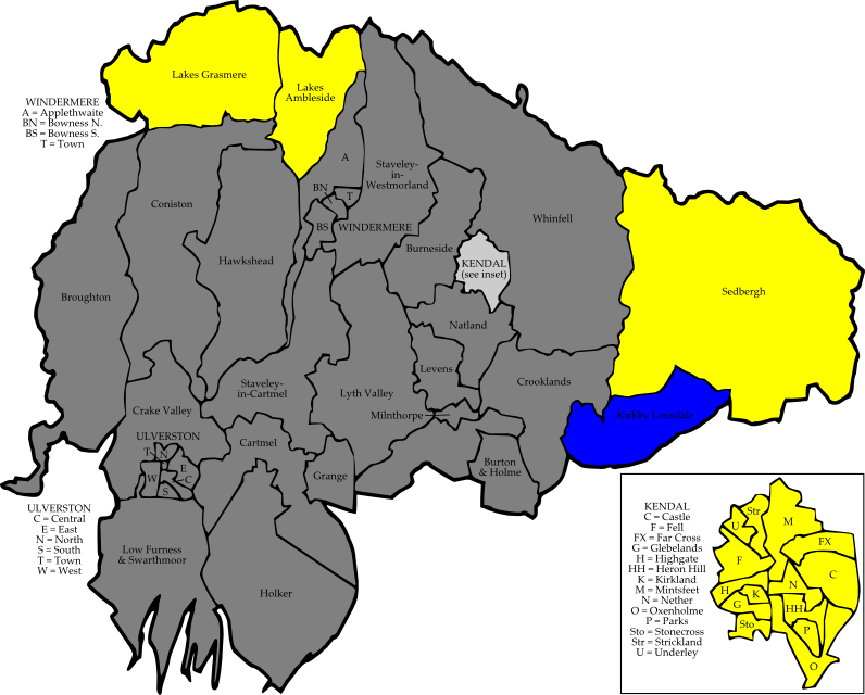 A map of the results of the 2006 South Lakeland Council election. Colour legend by wards won: Liberal Democrats Conservative party Wards in grey were not contested in 2006.